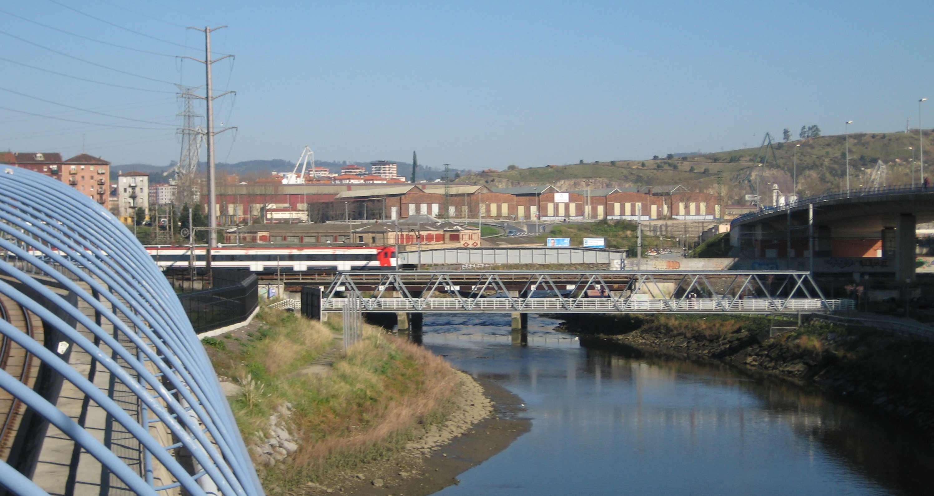 RENFE train in Sestao, and bridges over river Galindo between Sestao and Barakaldo.